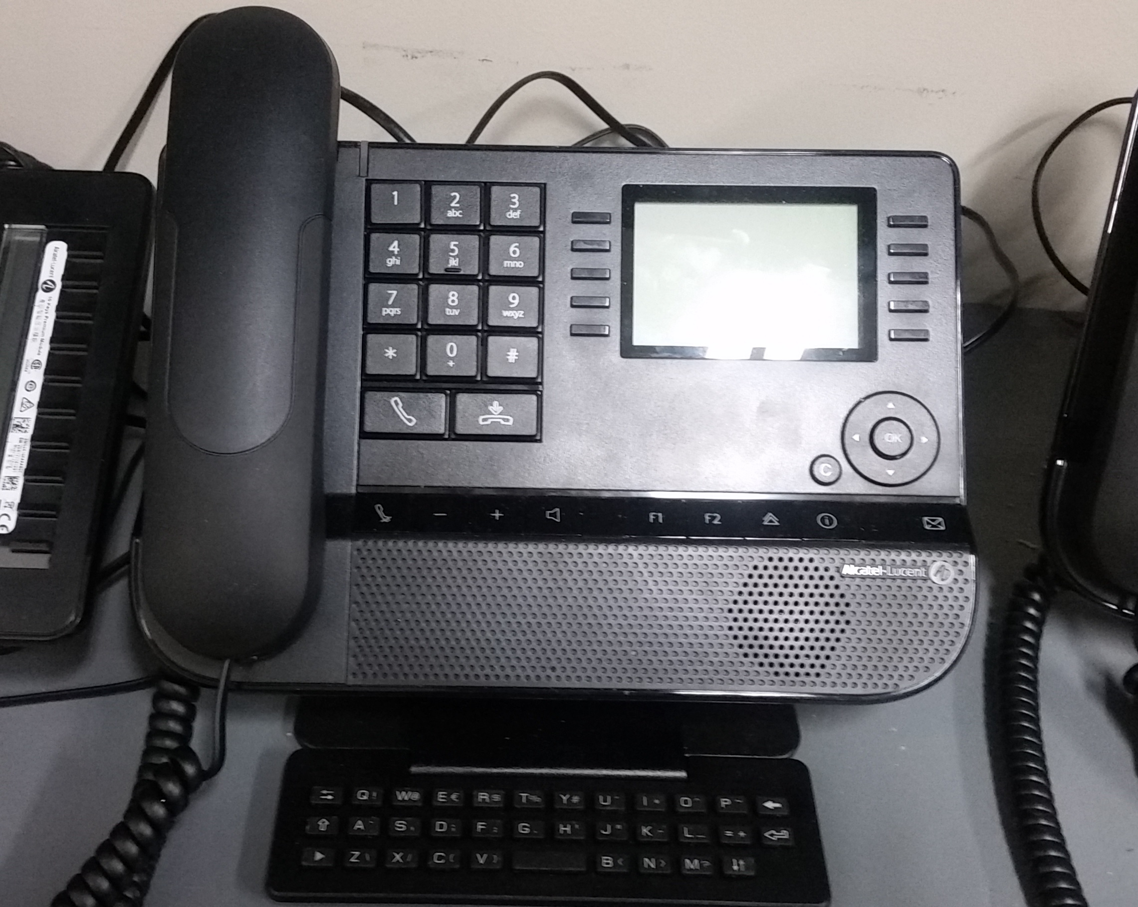 Alcatel Desk Phone with RJ-12 Digital Line interface